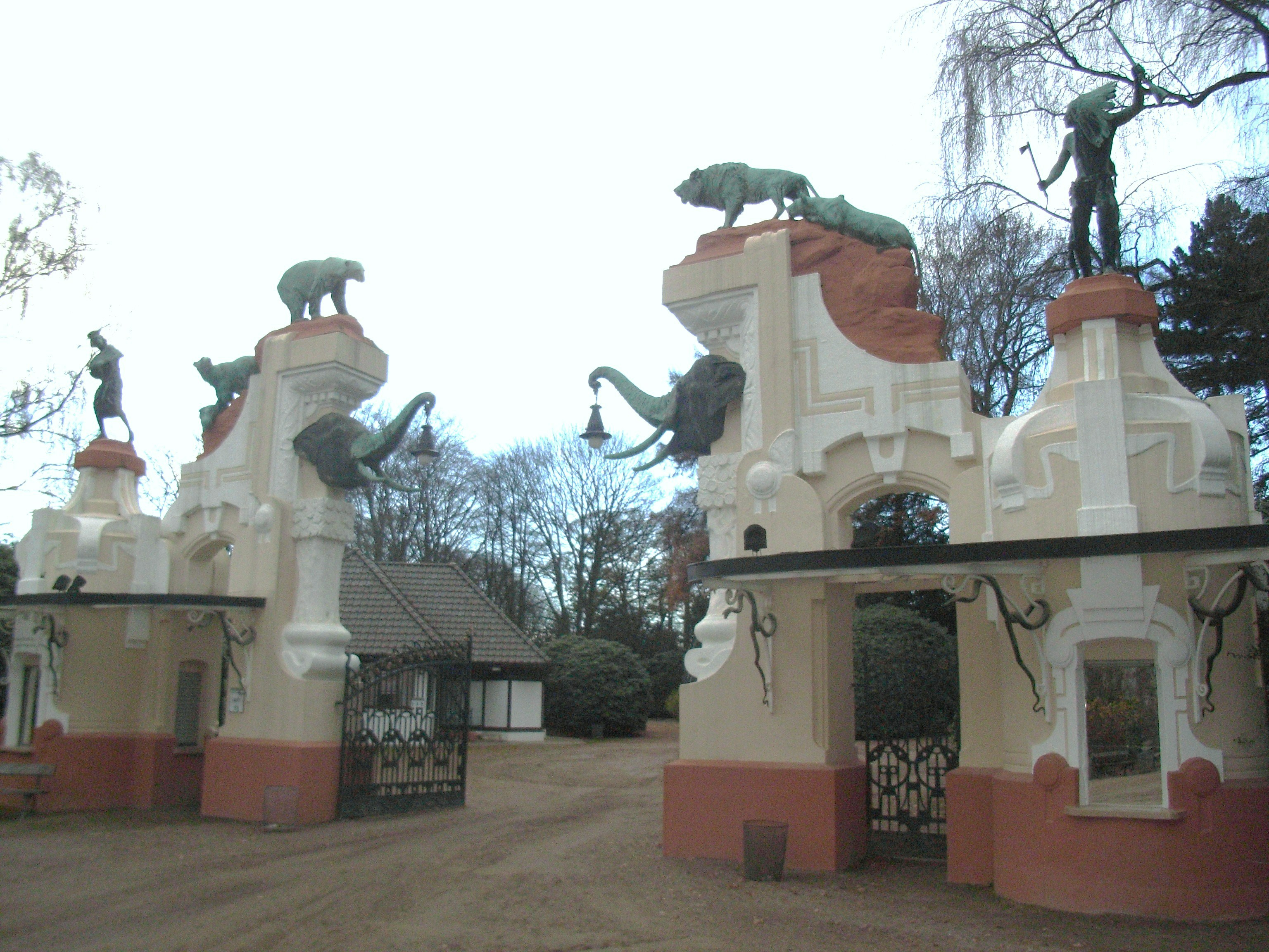 Gateposts at the main entrance at the zoo Tierpark Hagenbeck, Hamburg, Germany.